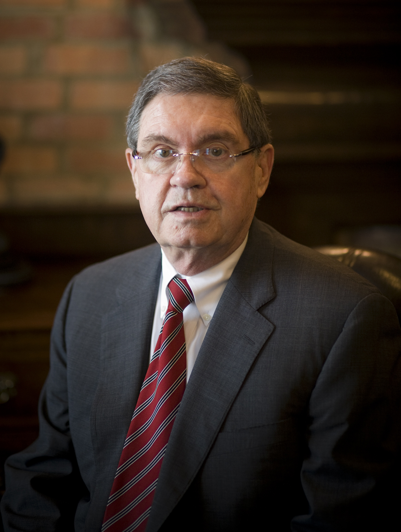 Jere Beasley, Lt. Governor of Alabama, 1971–79